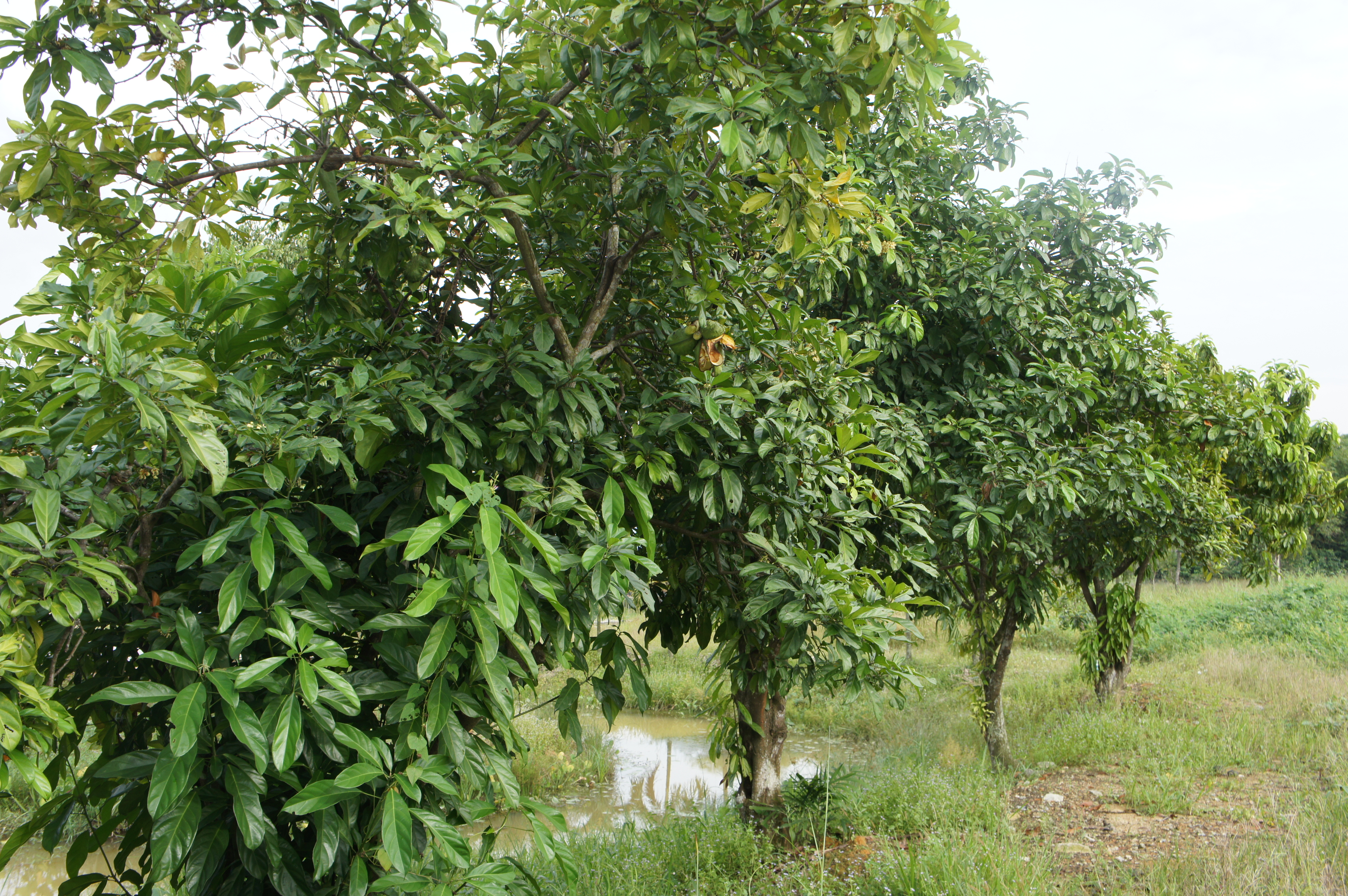 Tree of Cola nitida. Location: Serdang, Selangor, Malaysia